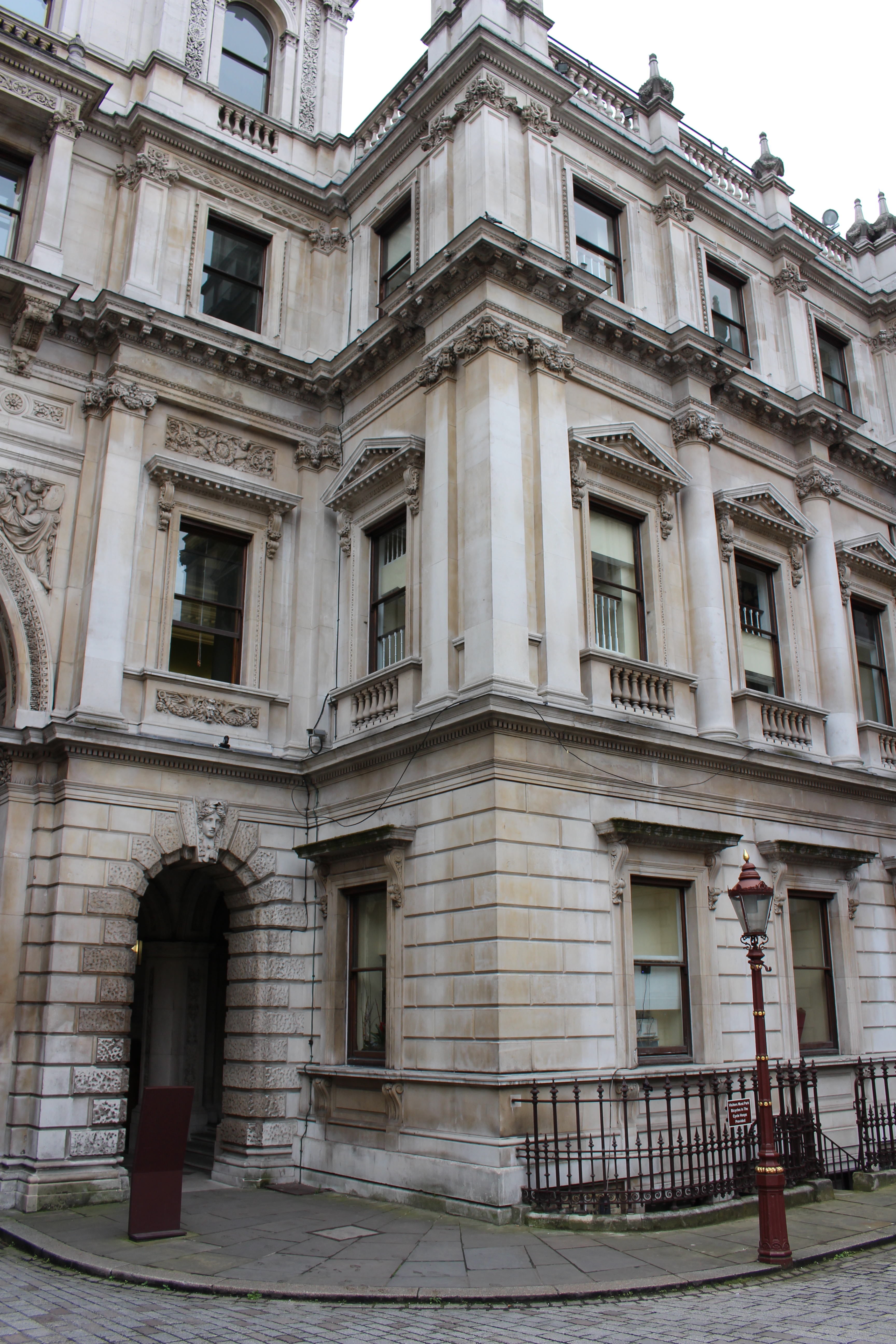 Exterior of The Linnean Society of London, taken from the courtyard of Burlington House Piccadilly.